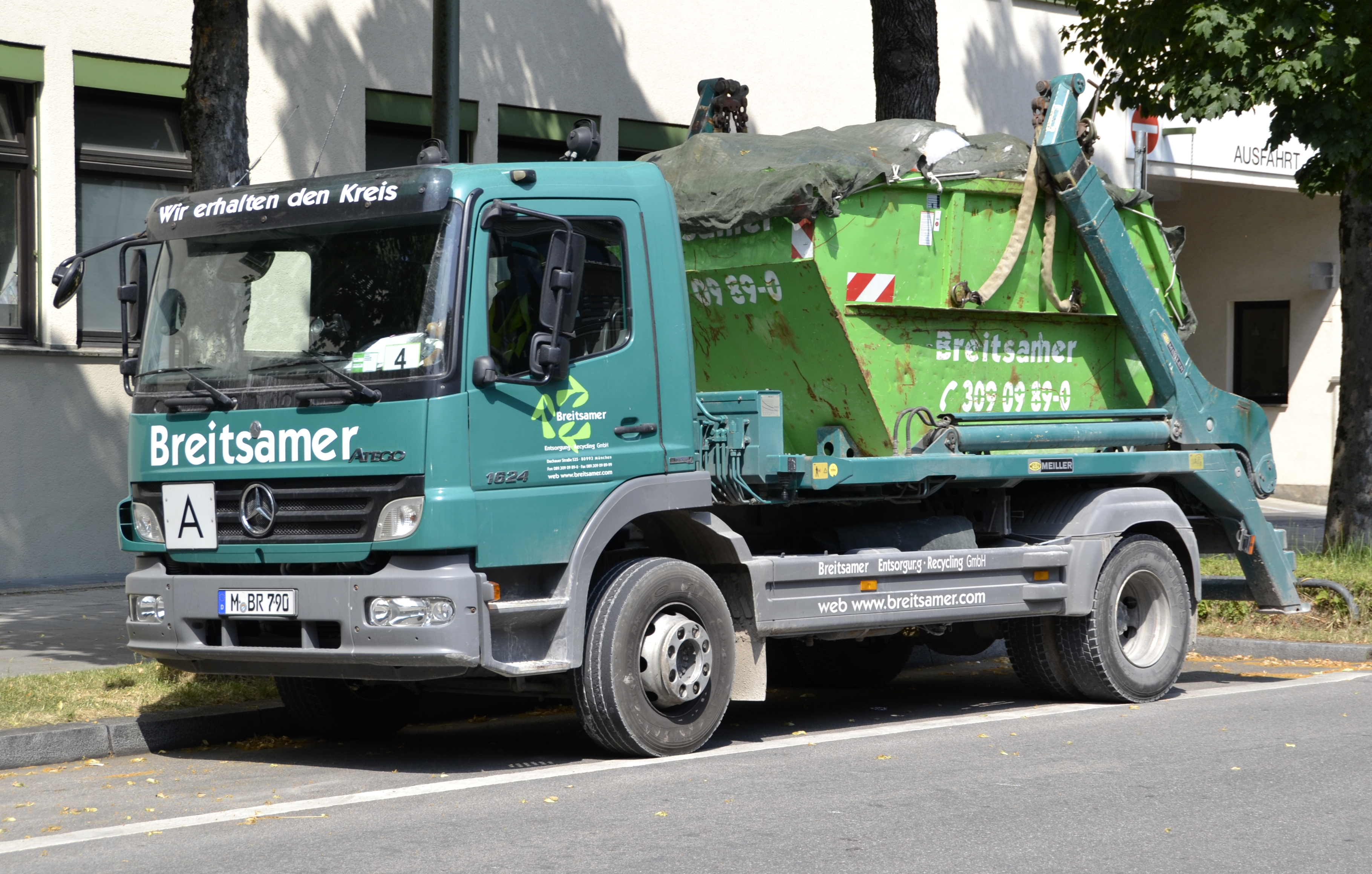 Mercedes Benz Atego 1624 container truck.